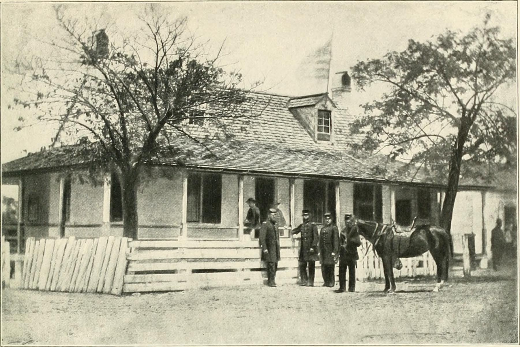 Title: The photographic history of the Civil War : thousands of scenes photographed 1861-65, with text by many special authorities Year: 1911 (1910s) Authors: Miller, Francis Trevelyan, 1877-1959 Lanier, Robert S. (Robert Sampson), 1880- Subjects: United States -- History Civil War, 1861-1865 Pictorial works United States -- History Civil War, 1861-1865 Publisher: New York : Review of Reviews Co. Text Appearing Before Image: s from the LT. S. gunboatsOttawa, Seneca, and Pembina, undercommand of Lii ut. T. H. Stevens. 17.—Federal gunboats and mortars, underFoote, began the investment of and at-tack on Island No. 10, on the Missis-sippi. 10 FEBRUARY, 1862. j — Unconditional surrender of Fort Henryto Flag-Officer Foote. to 10.—Lieut. Phelps, of Footes flotilla,commanding the gunboats Conestoga,Tijler and Lejington, captured Confed.gunboat Eastporl and destroyed all theConfed. craft on the Tennessee River 4.-between Fort Henry and Florence, Ala. — Destruction of Confed. gunboats in thePasquotank River, X. C, also of the (312) APRIL, 1862. -During a storm at night. Col. Robertswith ,50 jiickcd men of the 12d Illinois,and as many seamen under First MasterJohnston, of the gunboat .S^ Louis, sur-prised the Confederates at the upperbattery of Island No. 10, and spiked 6large guns. - Federal gunboat Carondelet ran past theConfed. batteries at Island No. 10,at night, without damage, and arrived atNew Madrid. Text Appearing After Image: YRIGMT, 1911, REVIEW OF REVIEWS CO. HEADQIARTERS OF GEXEKAL Q. A, GILLMORE AT HILTOX HEAD